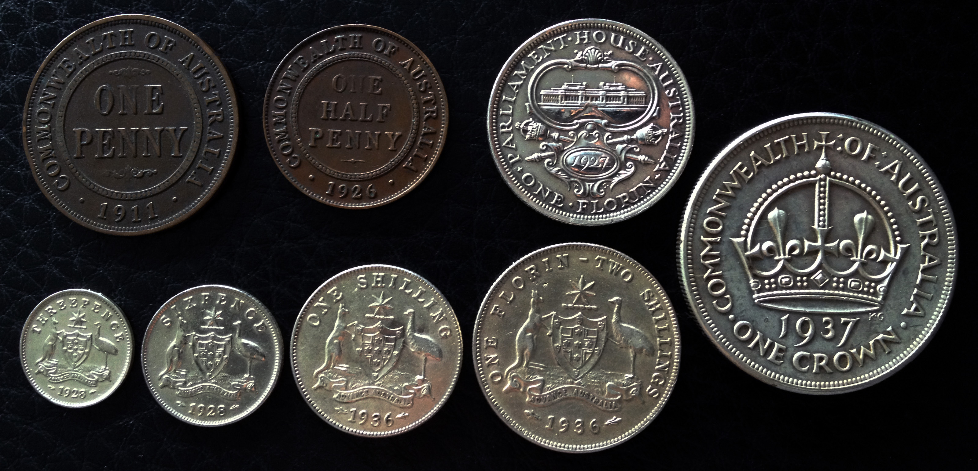 Showing Half Penny, Penny, 3 Pence 6 pence 1 shilling, 1 florin, and Crown coins.